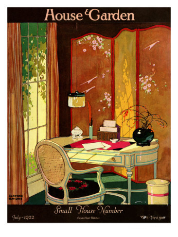 Clayton-knight-house-garden-cover-july-1922 restored